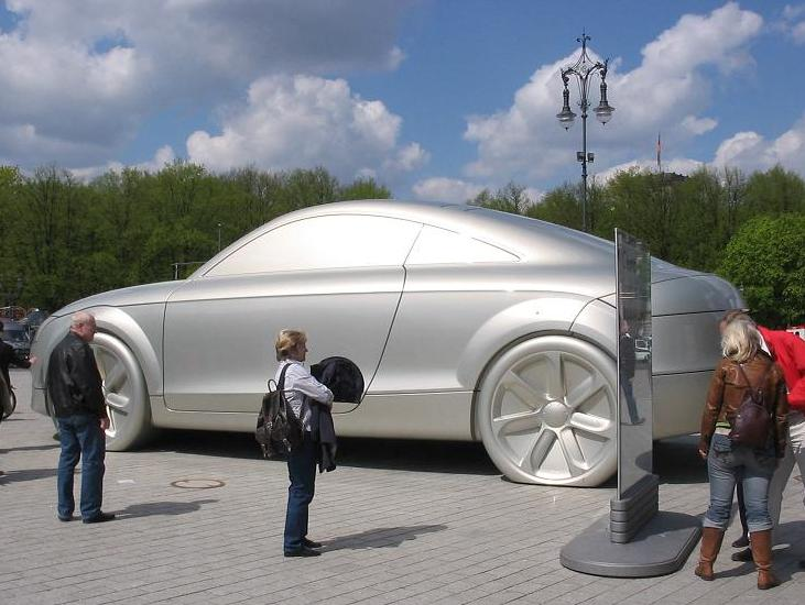 „The Automobile“, third sculpture (from six) of the Berliner Walk of Ideas on the occasion of 2006 FIFA World Cup Germany. Unveiling: 6 April 2006 at Brandenburger Tor, west side.